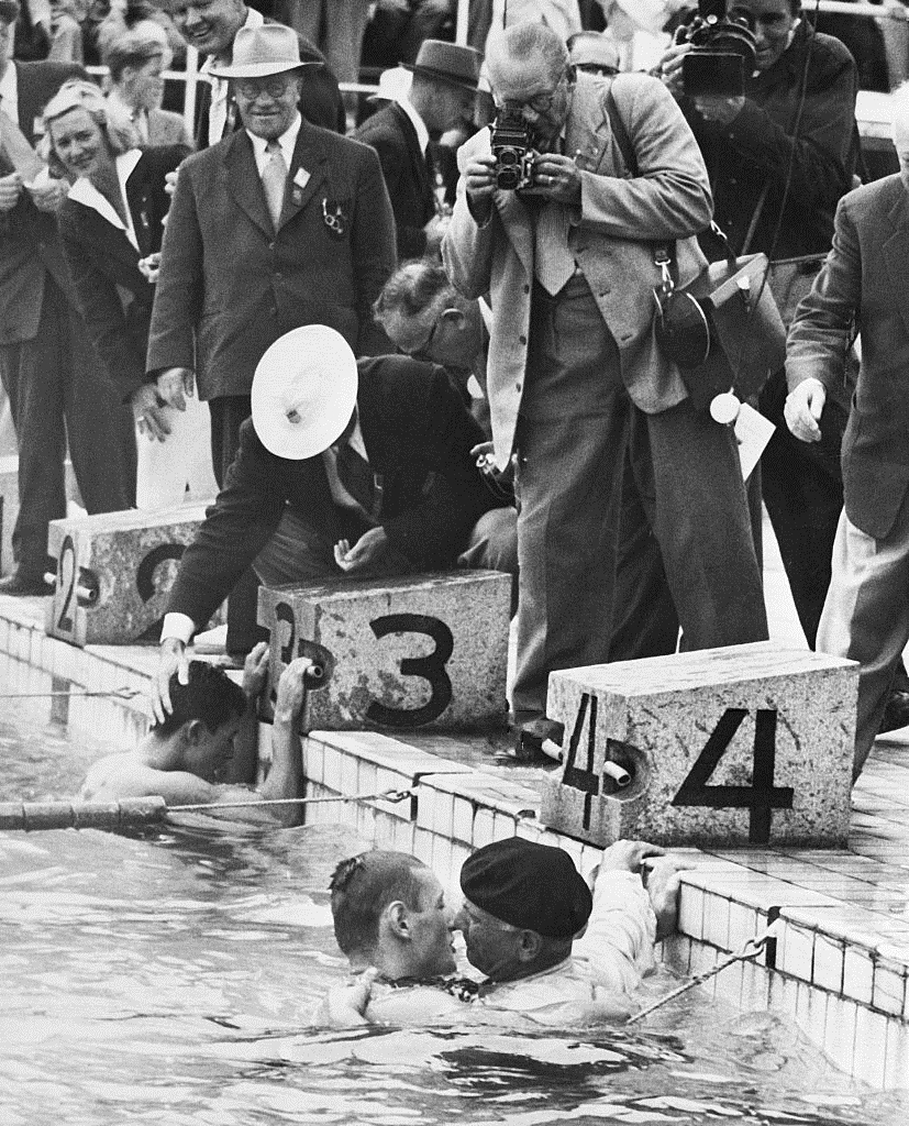 1952 Press Photo Jean Boiteux & his father at Olympic pool in Helsinki